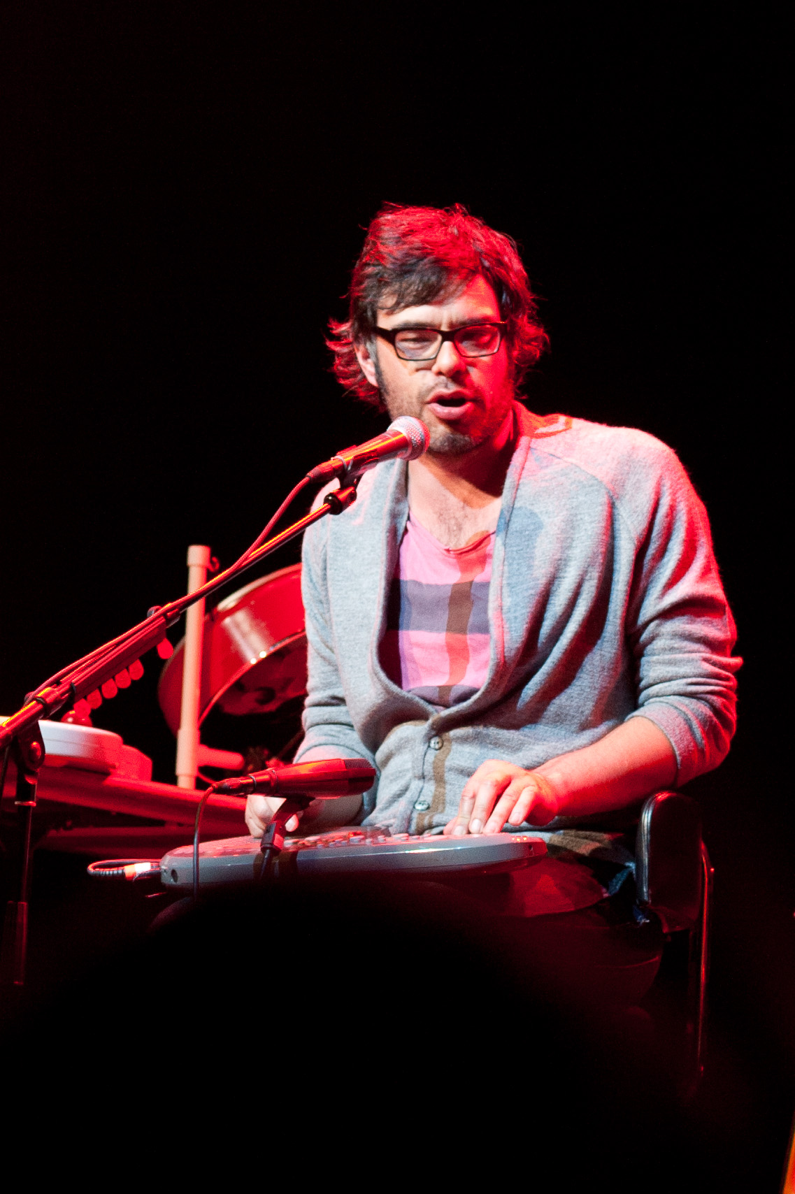 Jemaine Clement of New Zeeland group Flight of the Conchords performing at Cirkus in Stockholm, Sweden, May 2010